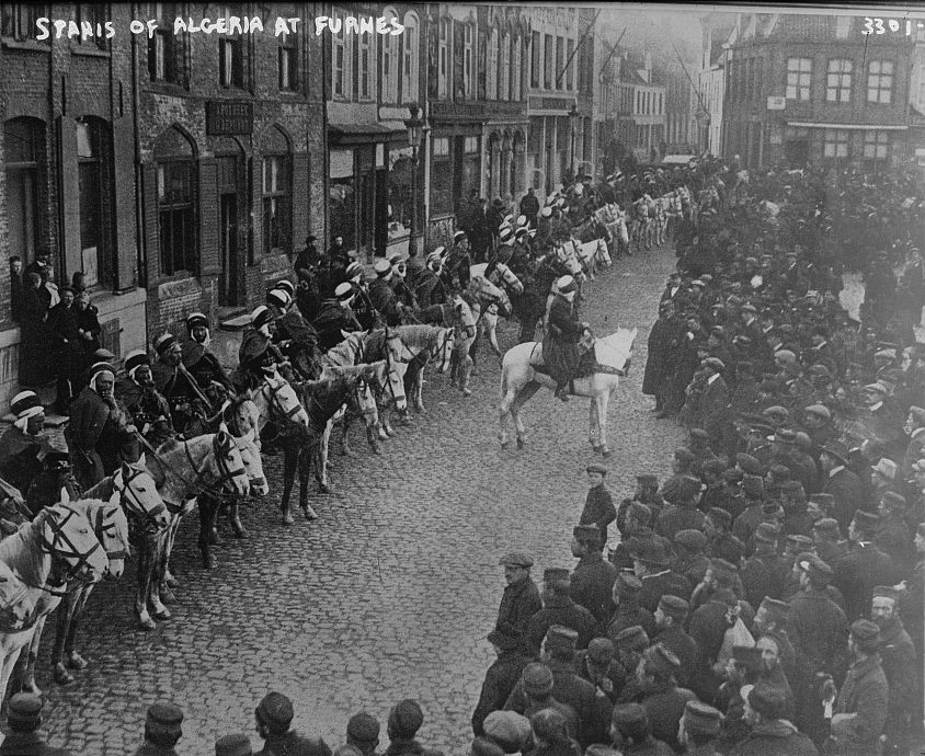 Spahis of Algeria at Furnes. A French army unit in a Belgium city during World War I Bain News Service,, publisher. Spahis of Algeria at Furnes [between ca. 1910 and ca. 1915] 1 negative : glass ; 5 x 7 in. or smaller. Notes: Title from unverified data provided by the Bain News Service on the negatives or caption cards. Forms part of: George Grantham Bain Collection (Library of Congress). Format: Glass negatives. Repository: Library of Congress, Prints and Photographs Division, Washington, D.C. 20540 USA, [1] General information about the Bain Collection is available at [2] Persistent URL: [3] Call Number: LC-B2- 3301-11